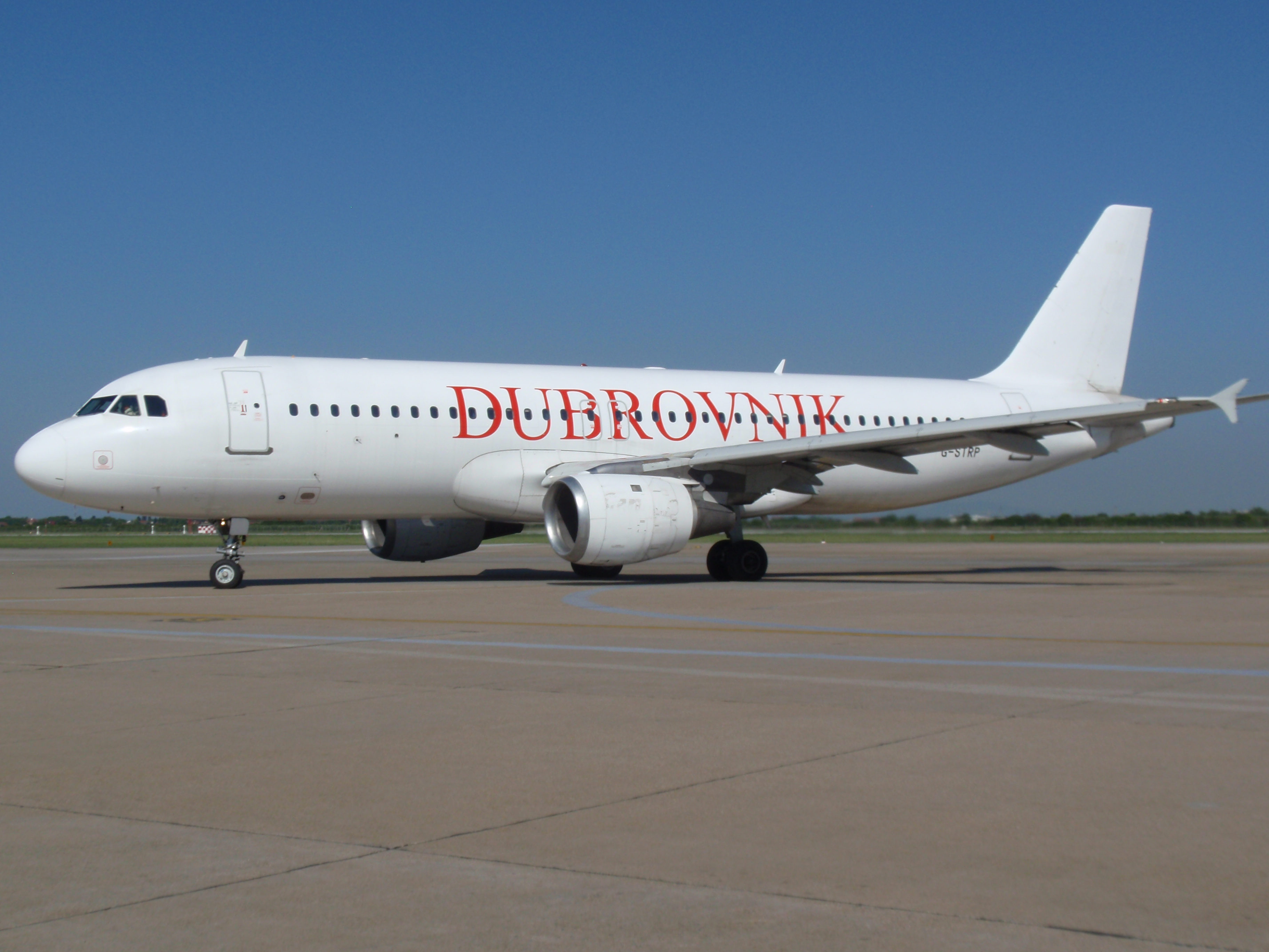 Airbus A320-200, Dubrovnik Airline